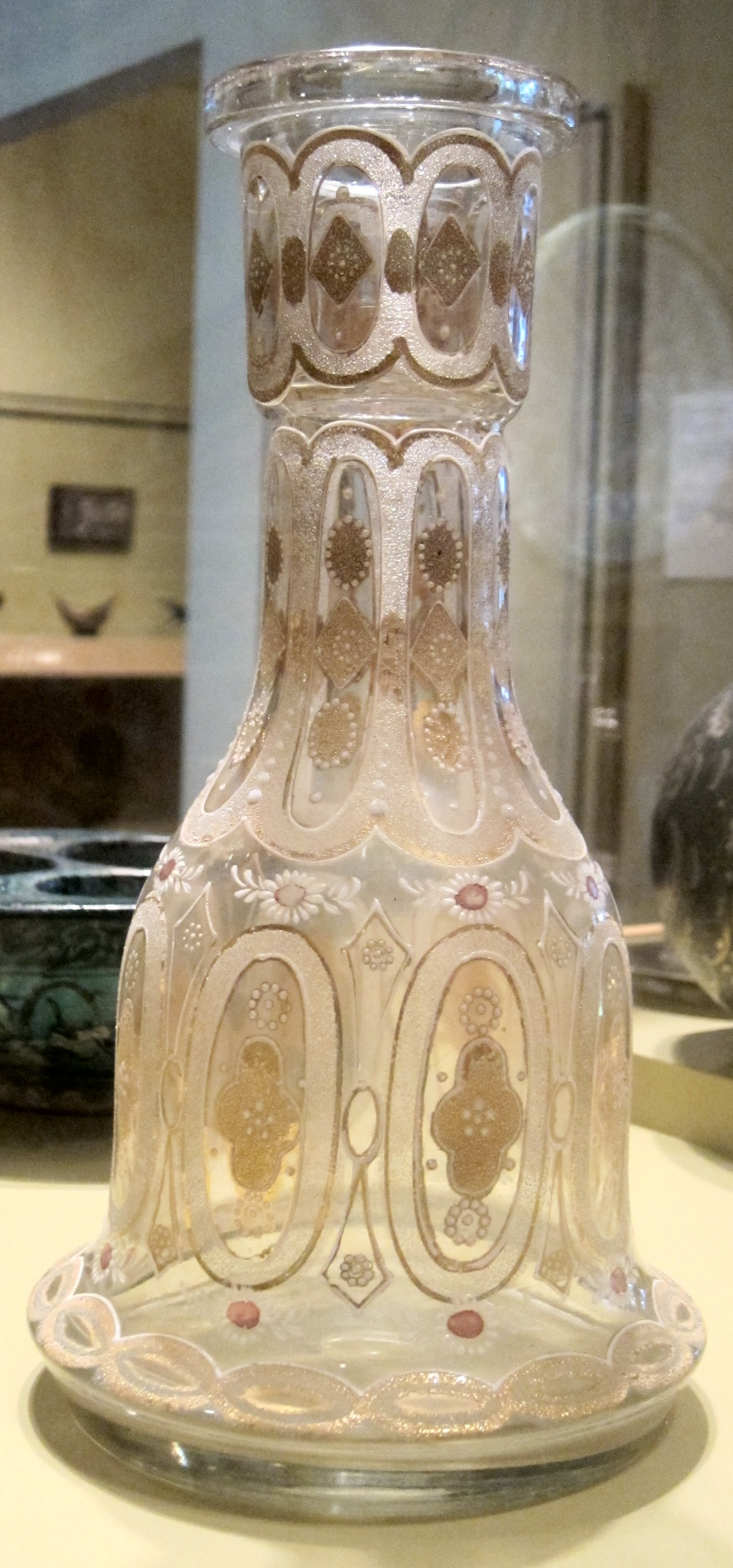 Base of water pipe, Turkey (Beykoz), 19th century, glass, pigments and gilding, Honolulu Museum of Art (long-term loan from the Doris Duke Foundation for Islamic Art)